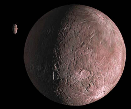 Quaoar and its small moon Weywot. This image tries to show the moderately red color of Quaoar (B-V=0.94, V-R=0.64). The precise albedos, and thus sizes of these two objects are not yet known. Quaoar is estimated to be about 844km in diameter. Thanks to the orbiting moon Weywot, Quaoar is known to be more massive than the dwarf planet Ceres.